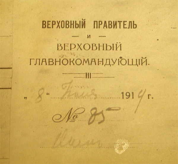 Form for official letters titled 'Supreme Ruler and Supreme Commander' Admiral AV Kolchak